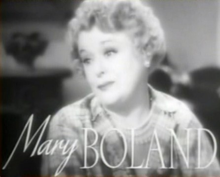 Cropped screenshot of Mary Boland from the trailer for the film The Women.